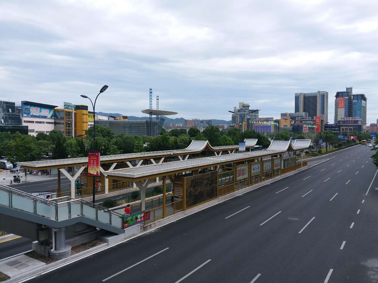 Bus rapid transit station in Yiwu in front of District 1 of Futian market